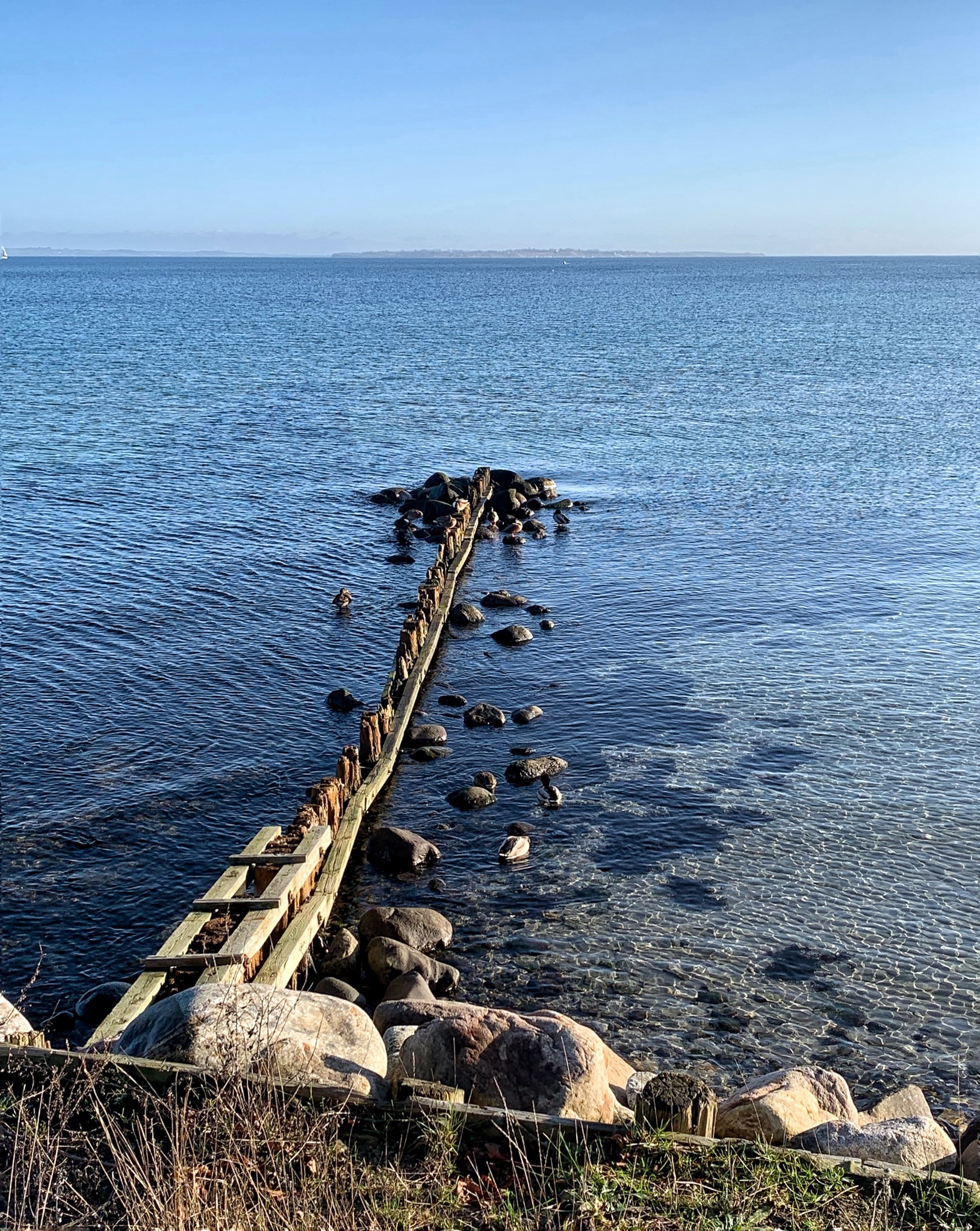 Older groyne in Denmark at Oresund coast at Nivå